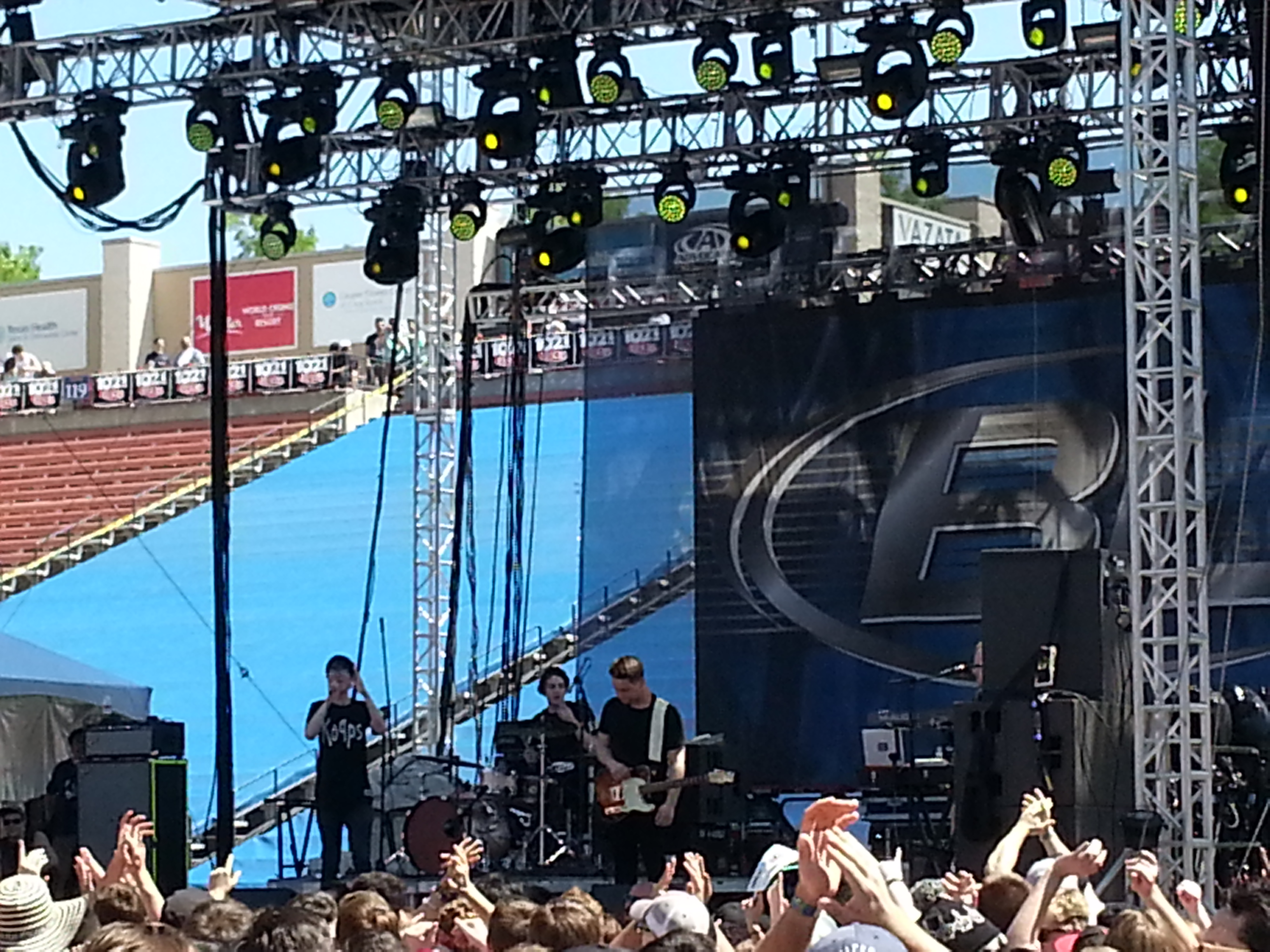 American band Joywave performing